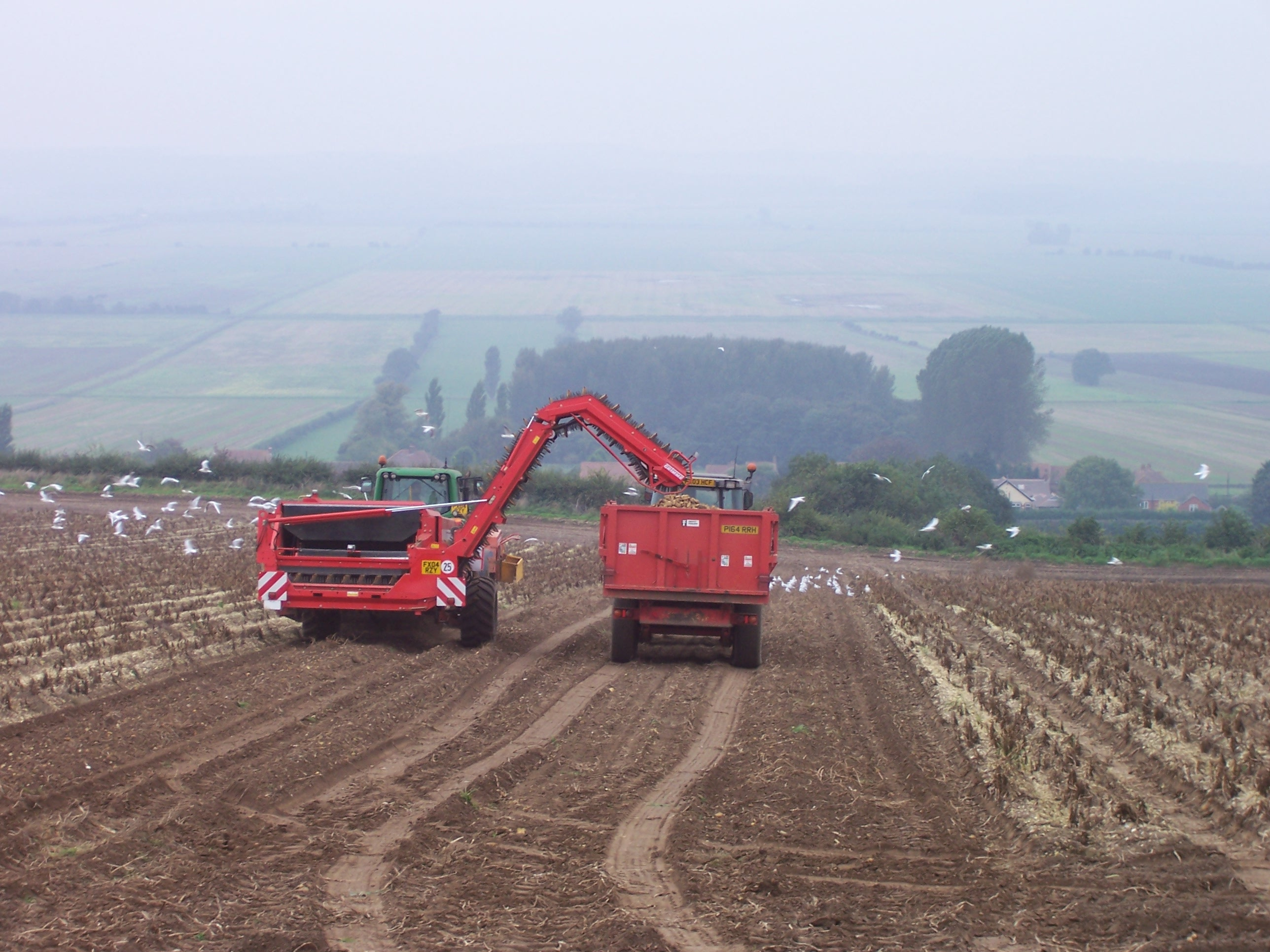 Harvesting potatoes with two tractors (one with a trailer) and a Grimme potato harvester near Bonby, North Lincolnshire, UK.